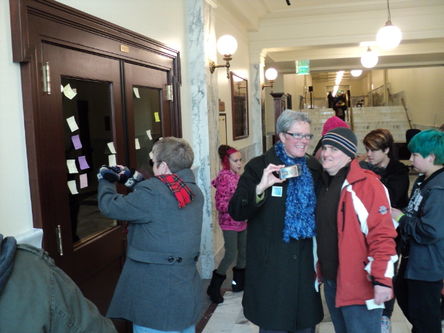 Idaho State Senator Nicole LeFavour at an Add The Words LGBT civil rights demonstration in the Statehouse.